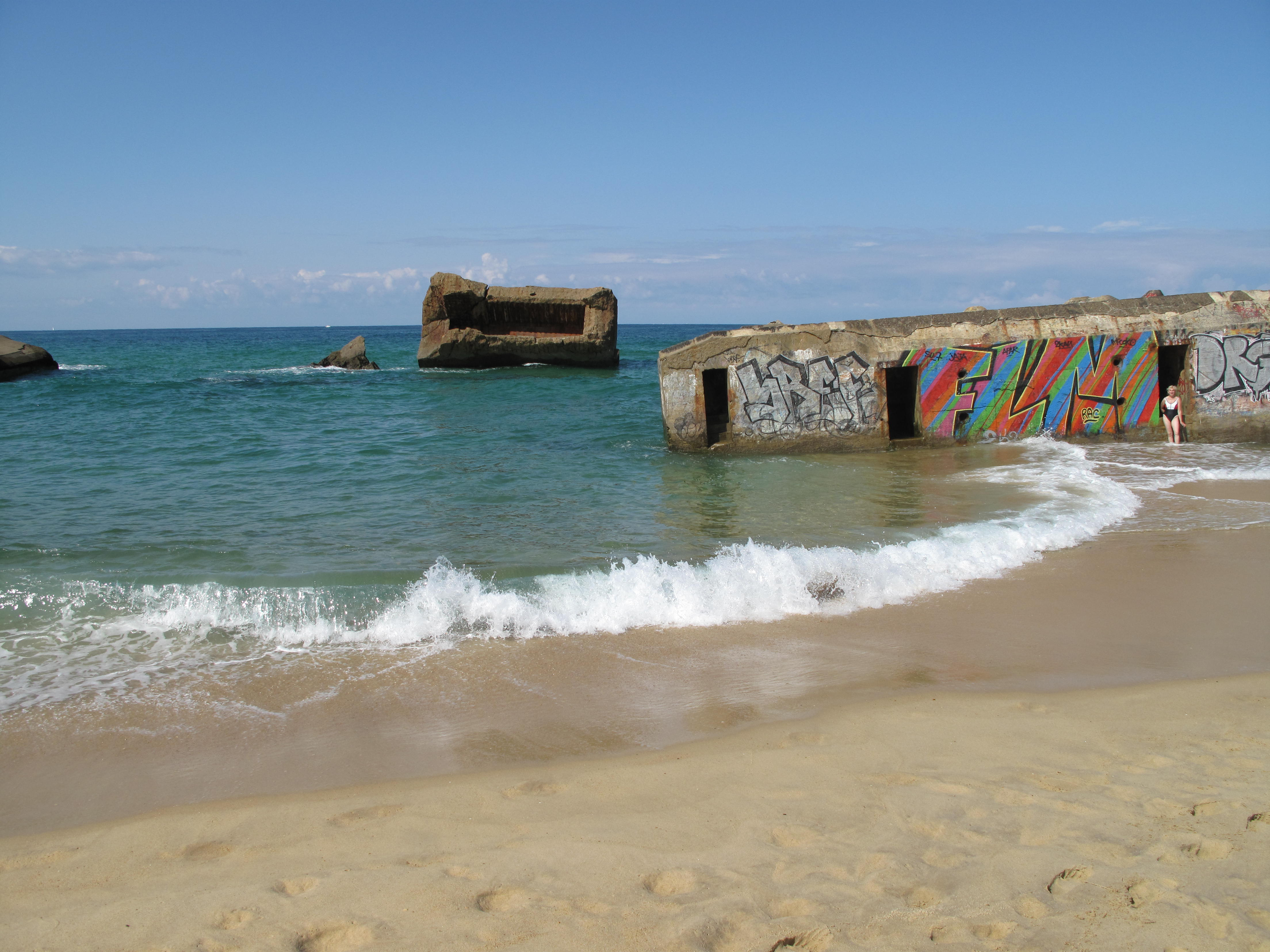 Blockhauss of Capbreton (Landes, France) with tags